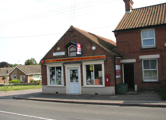 Photo of the post office at Lenwade, Norfolk